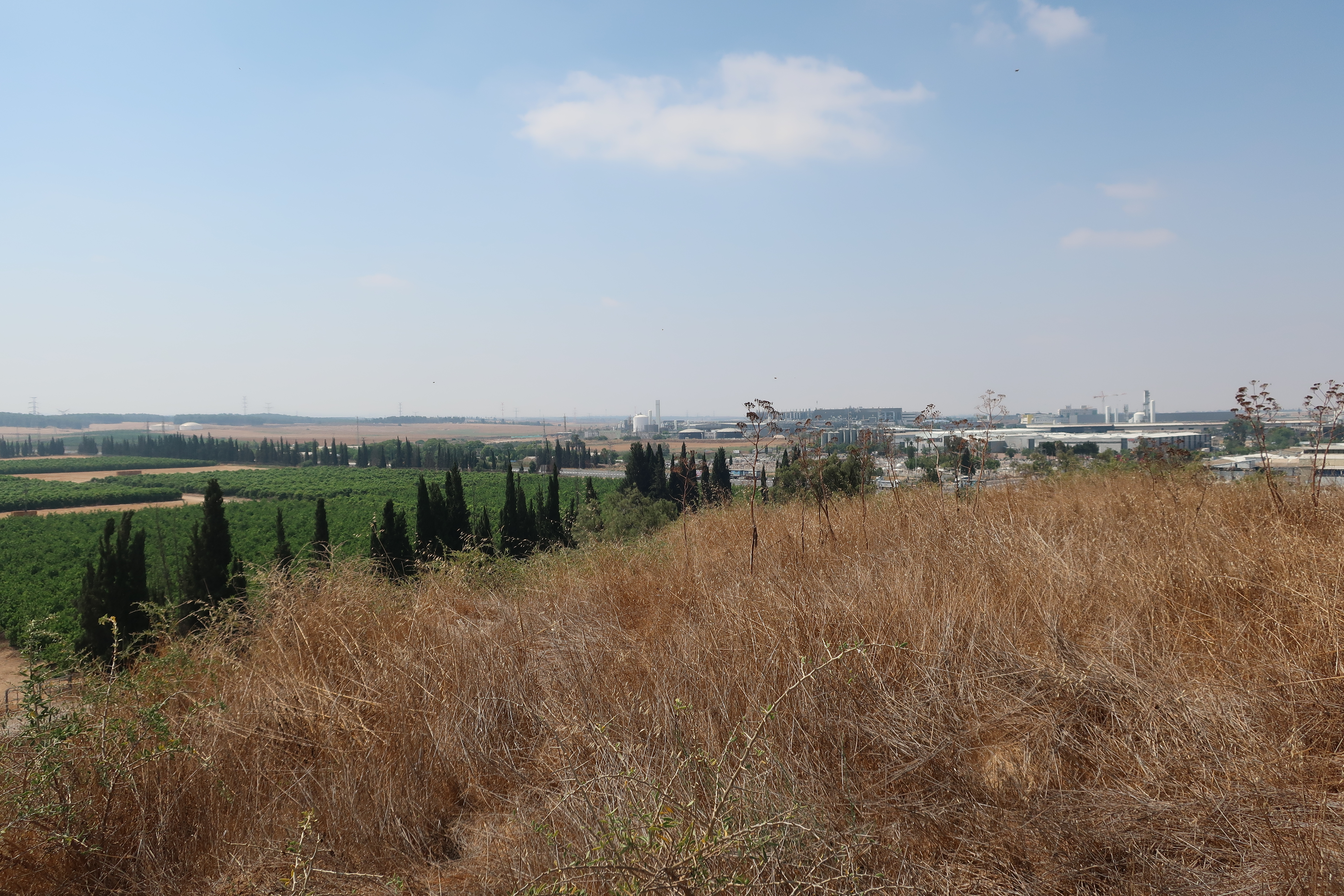 View of agricultural fields outside of Kiryat Gat